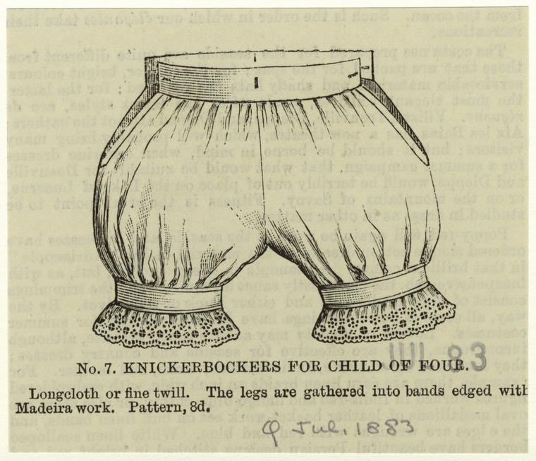 Knickerbockers for a child of four. [Knickerbockers for a child of 4.] (1883) Printed on border: "Longcloth or fine twill. The legs are gathered into bands edged with Madeira work. Pattern, 8d." Written on border: "Jul. 1883"